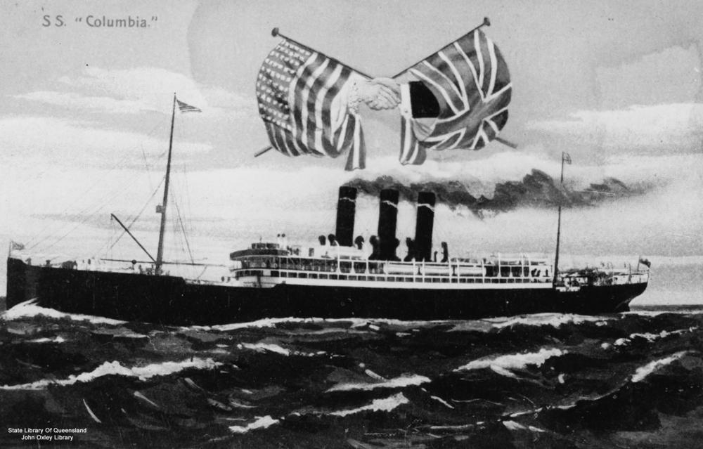 Columbia (ship)